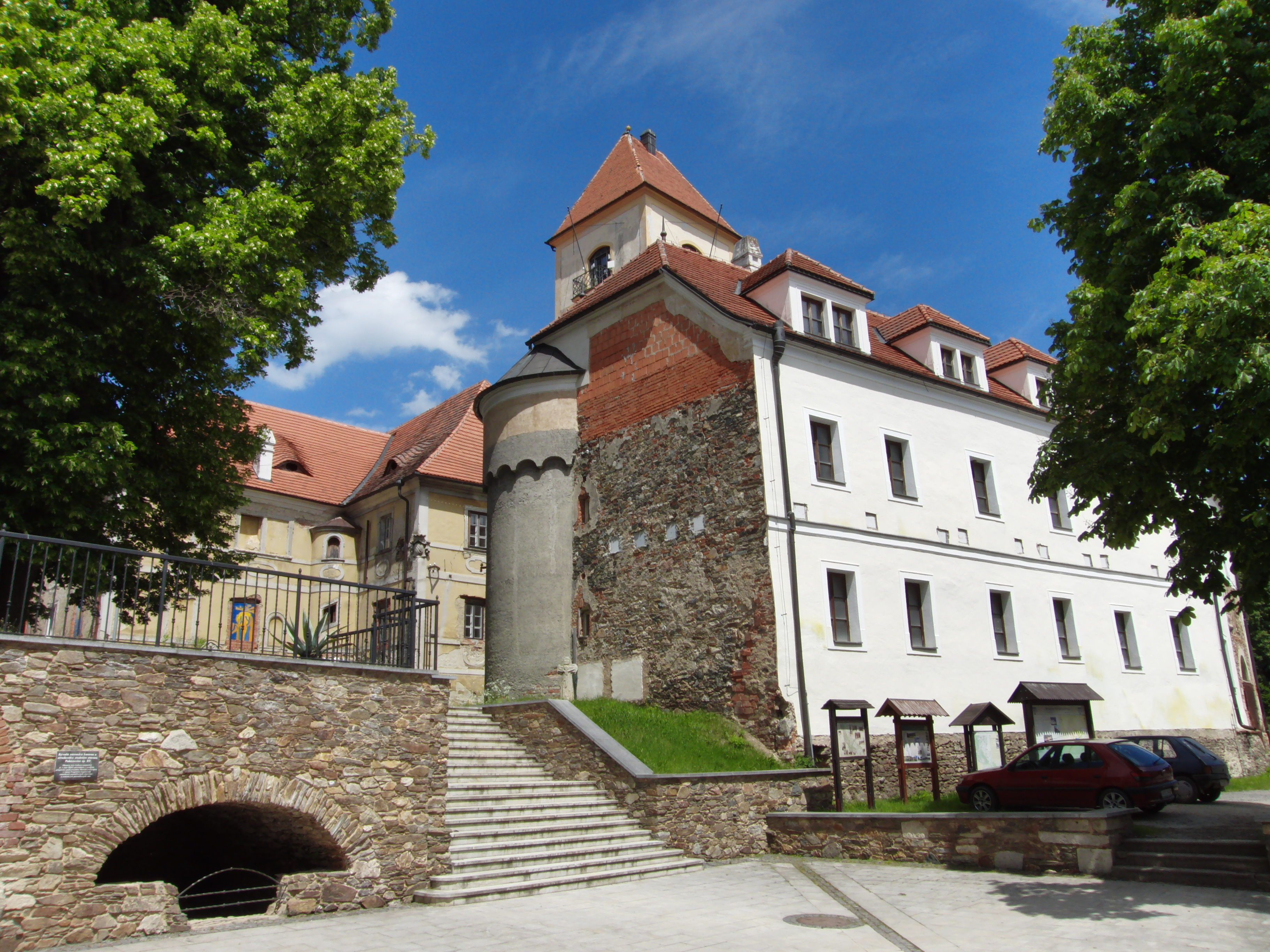 Poběžovice chateau (Domažlice district), cultural monument